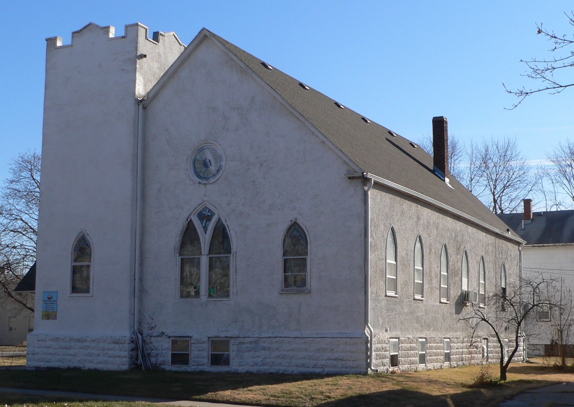 Quinn Chapel AME Church, located at southwest corner of 9th and C Streets in Lincoln, Nebraska; seen from the northwest.